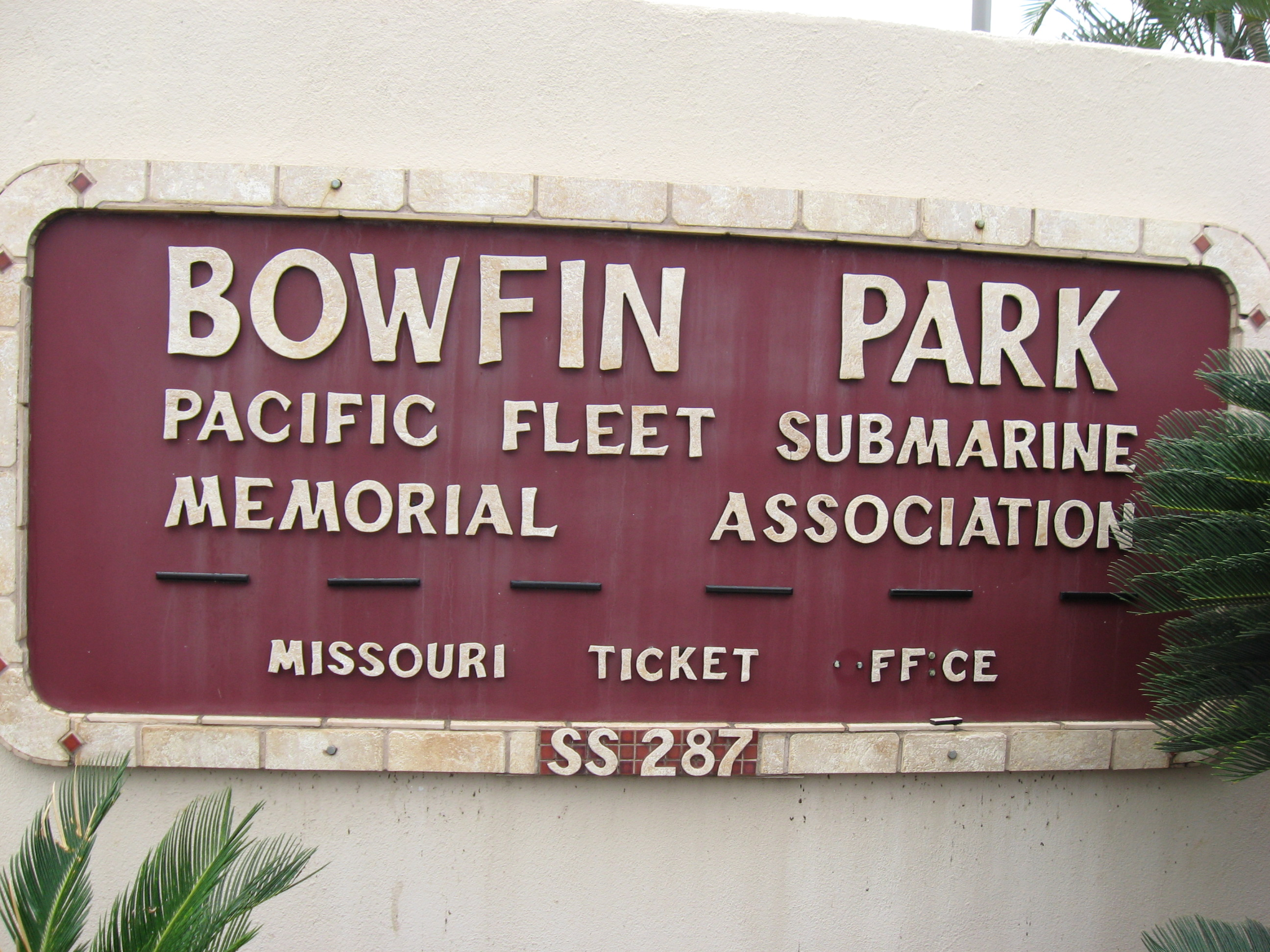 USS Bowfin Submarine Museum & Park in Pearl Harbor